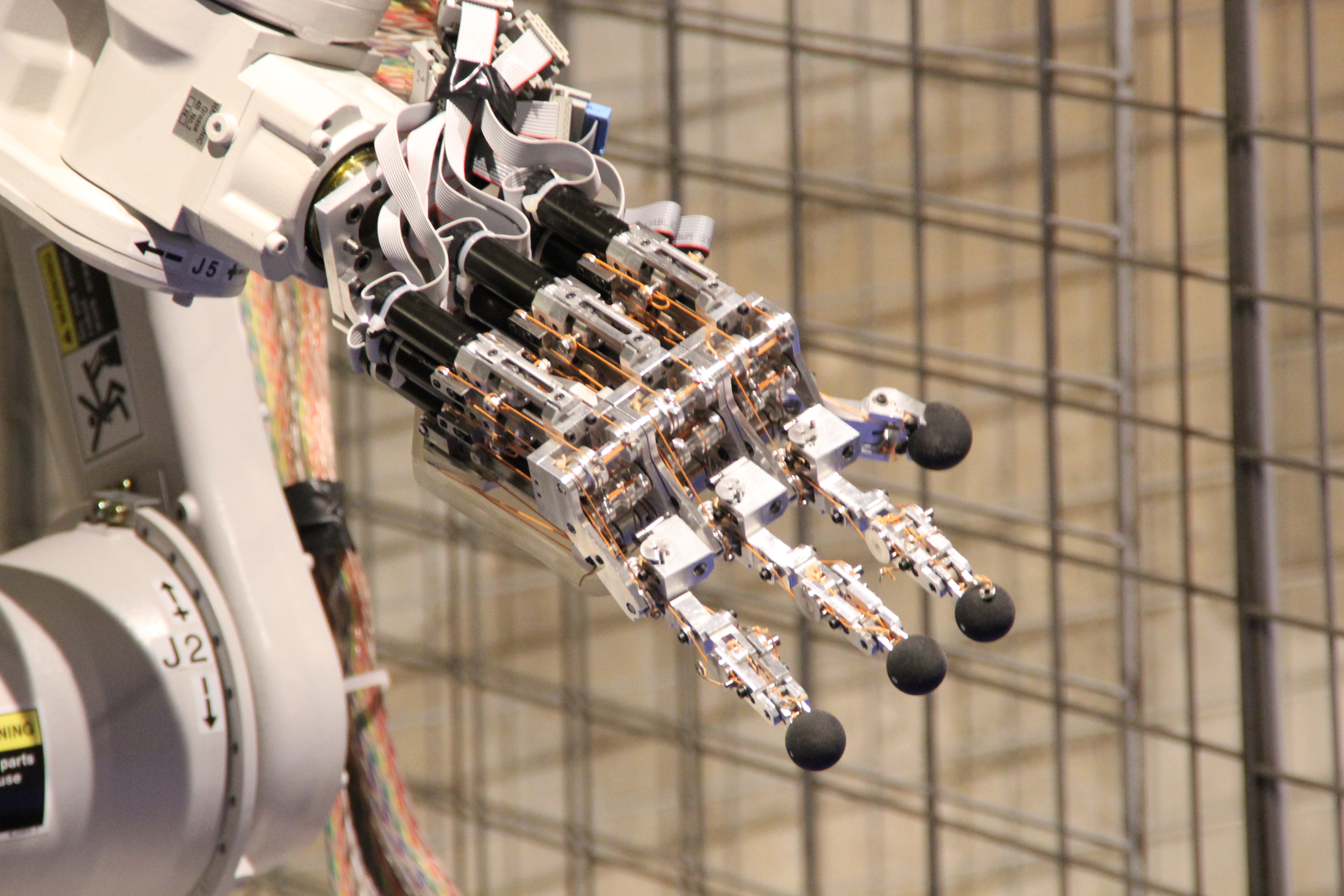 Futur en Seine 2012 is a digital festival in Paris, France. - Google Maps - Google Earth